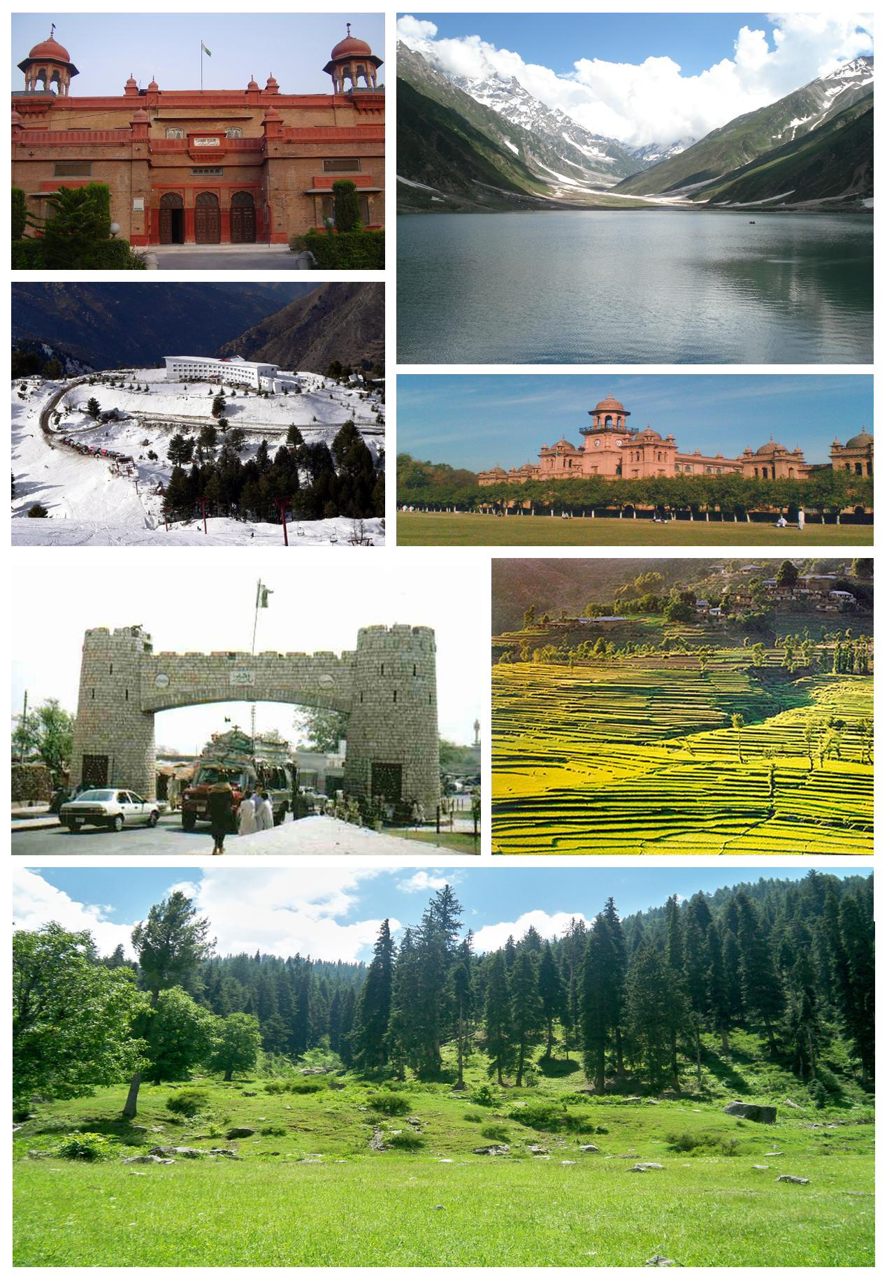 Montage of various Khyber Pakhtunkhwa images.